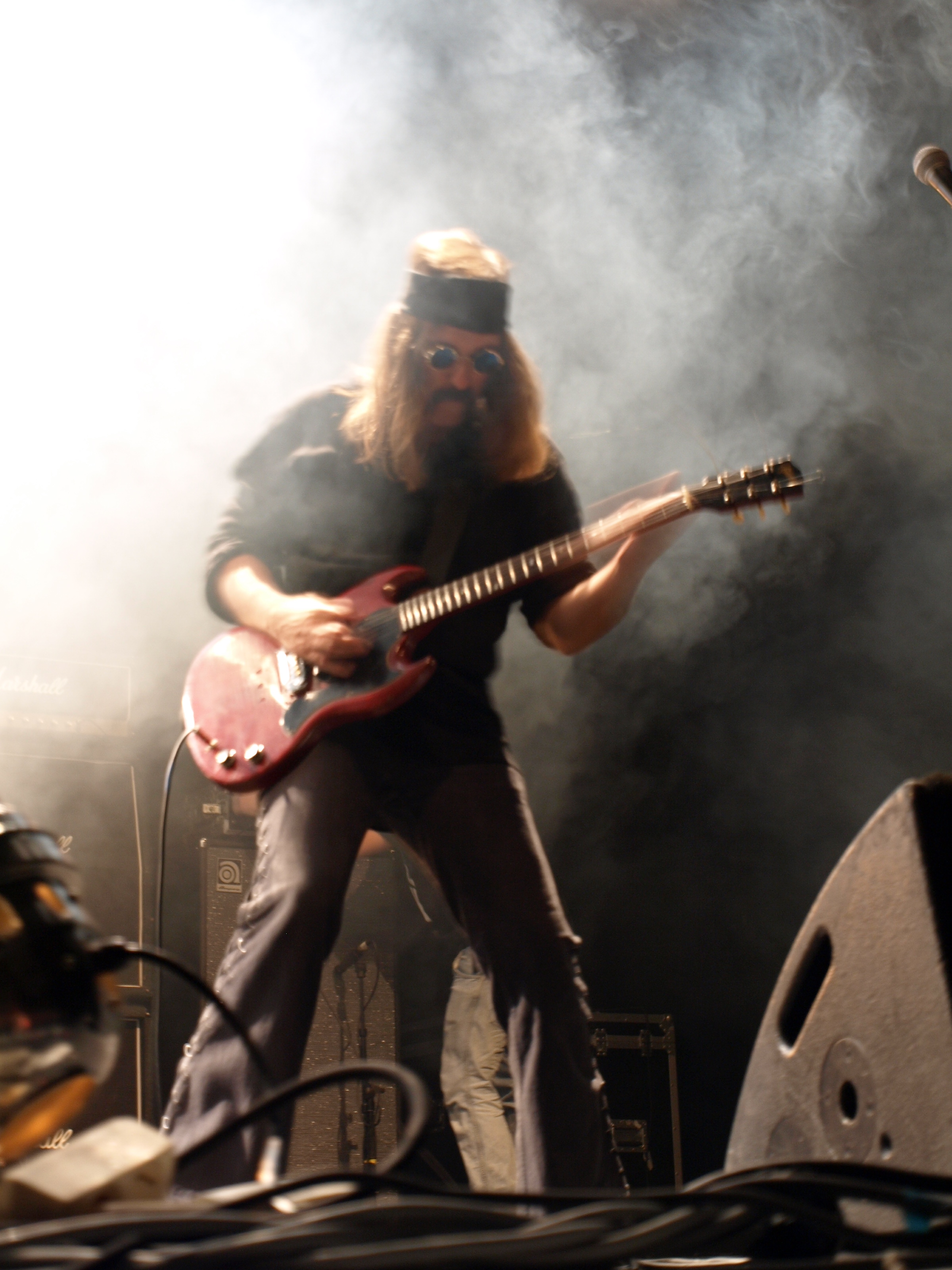 American doom metal band Trouble live at Jalometalli 2008 in Oulu.